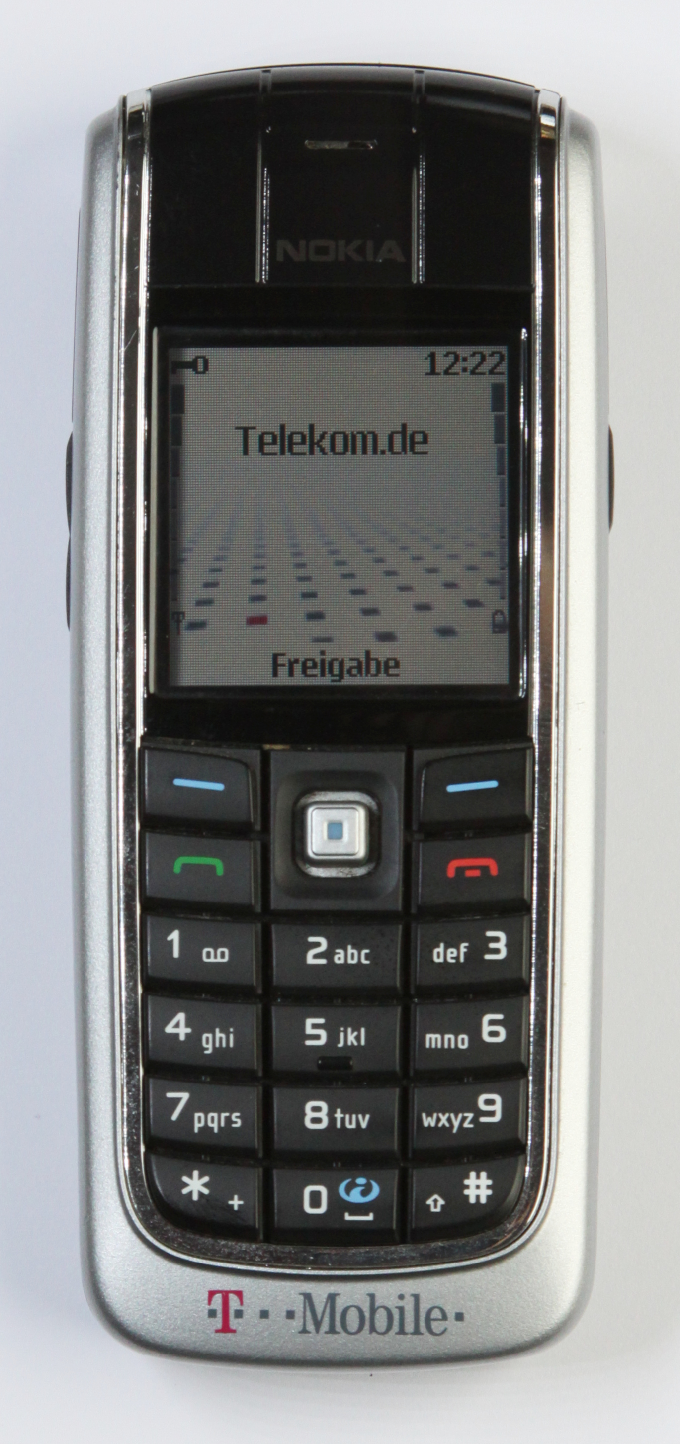 Nokia 6021 phone (2005)